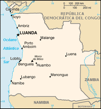 Map in French of Angola